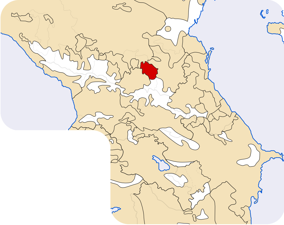 Location map of the Ingush people.